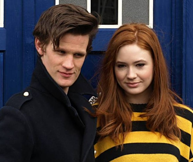 Matt Smith and Karen Gillan in Salford. They portray The Doctor and Amy Pond, and are posing in front of the TARDIS during a damp and cold March morning.